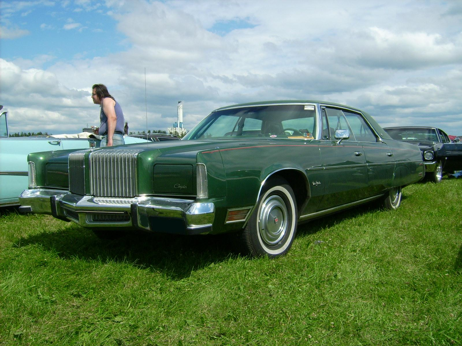 1976-1977 Chrysler New Yorker 4-door hardtop at Power Big Meet, Västerås, Sweden